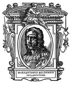 marcantonio bolognese; Illustratio from "Le Vite" edition of 1568.